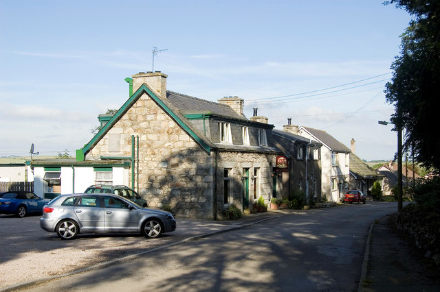 The Boar's Head Inn, Kinmuck, Aberdeenshire